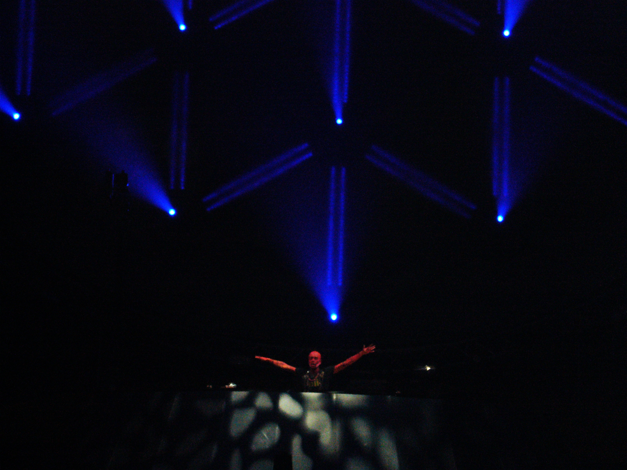 Headhunterz live at Qlimax 2008